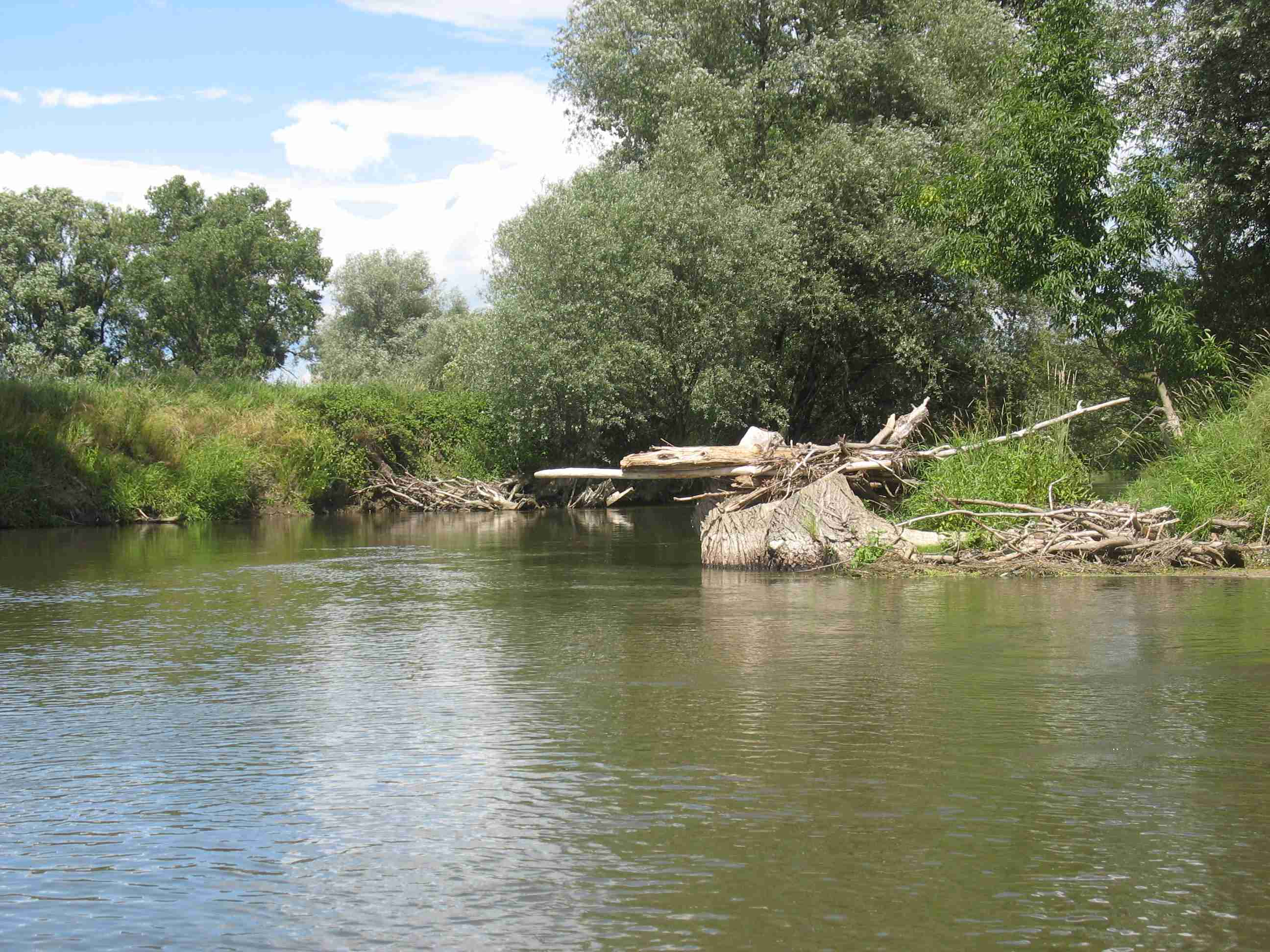 River Opava near Háj ve Slezsku, Czech.